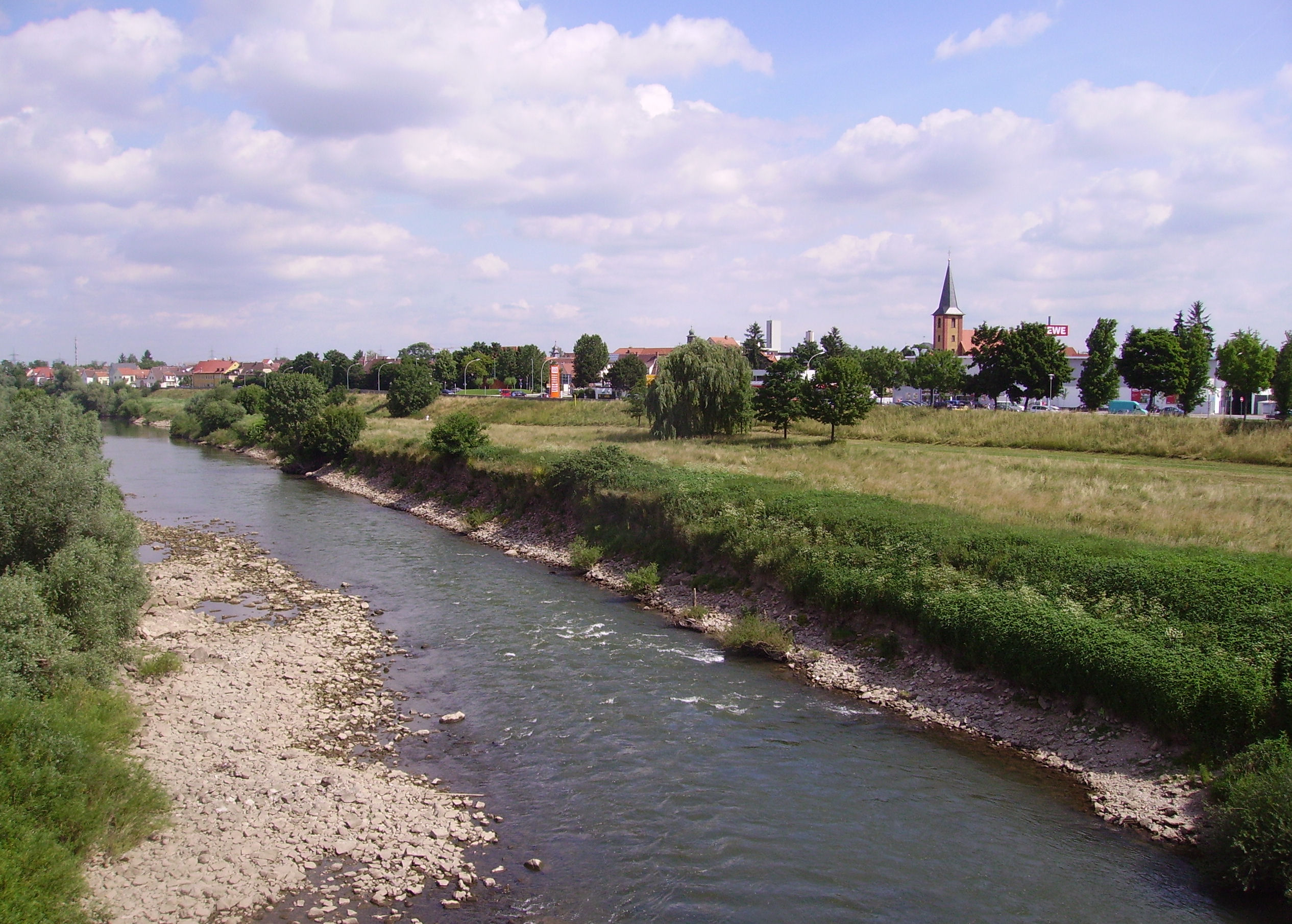 Ilvesheim, Germany